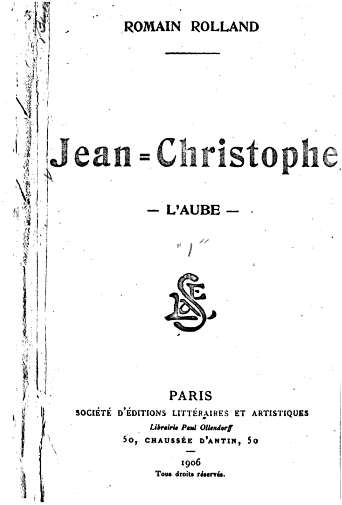 Title page from "Jean-Christophe" (1904-1912)